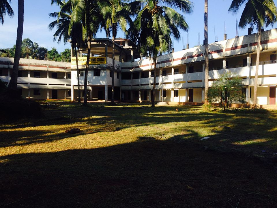 College Building